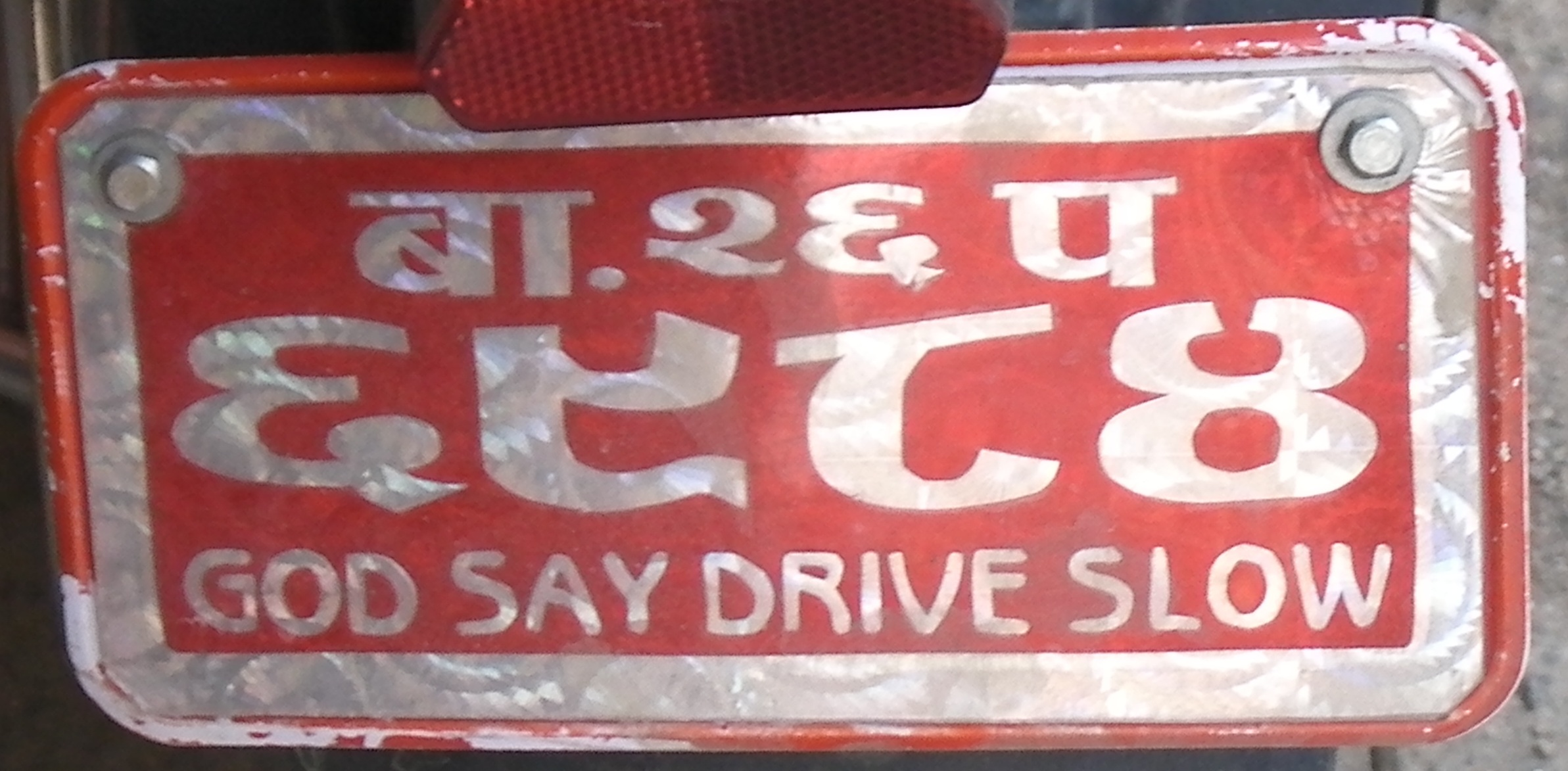 Motorcycle license plate in Kathmandu, Nepal